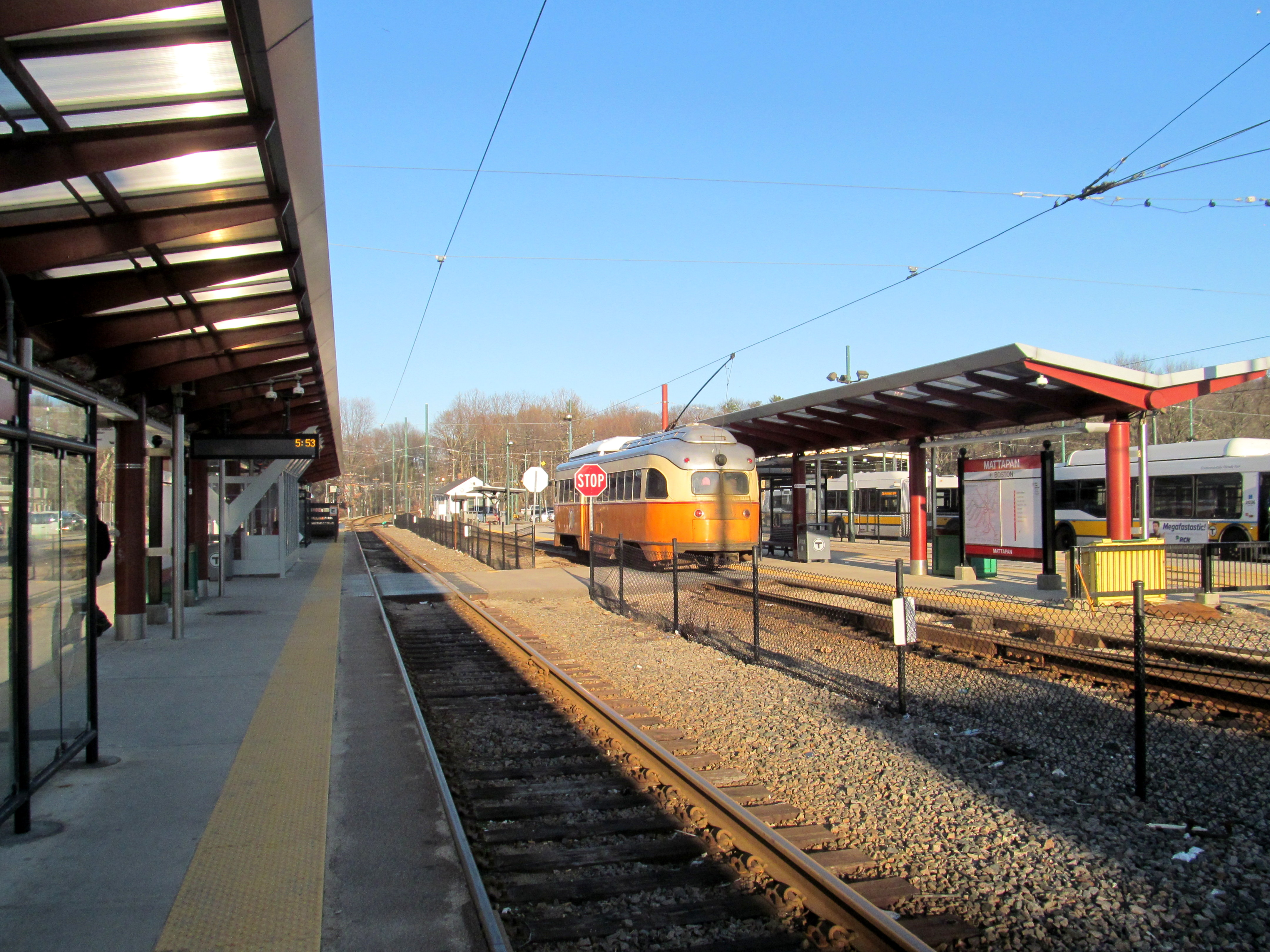 MBTA 3263 leaving Mattapan station in March 2016